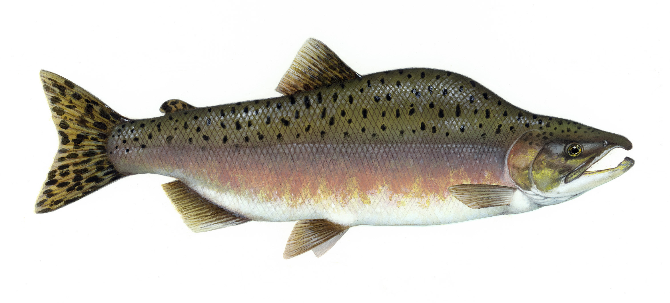 Drawing of a Pink salmon.